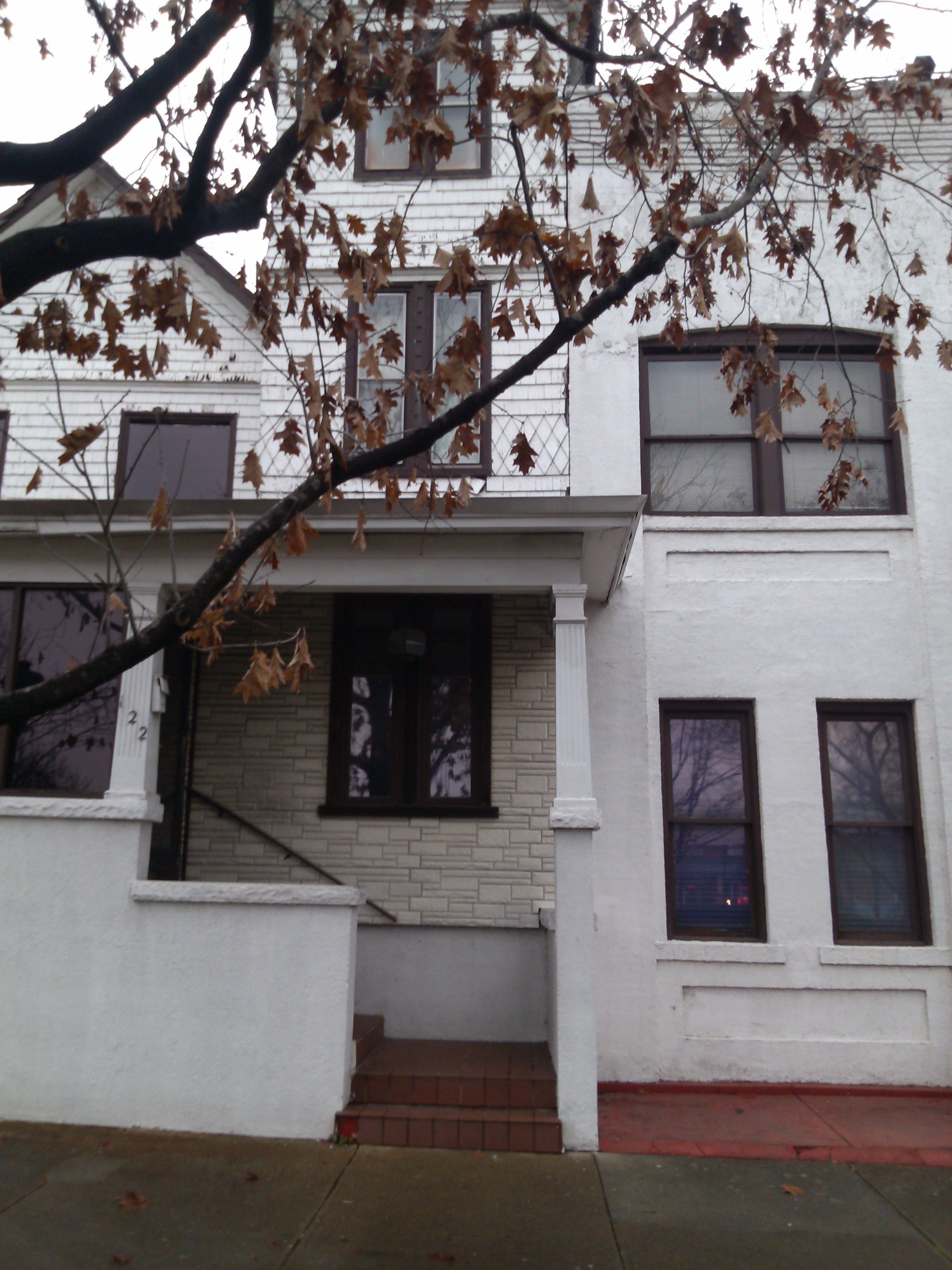 Now located further down the street in new facility. 122-124 Berkley Avenue, East, Was built in 1888, Renaissance Revival style, 2-story, funeral home of brick masonry construction with seven-course American bond treatment and a flat roof with parapet.